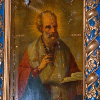 St. Nikolas, church 40 de Sfinti, Iași